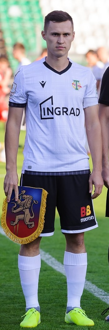 Aleksandr Ryazantsev with FC Torpedo Moscow before the game against FC Yenisey Krasnoyarsk.